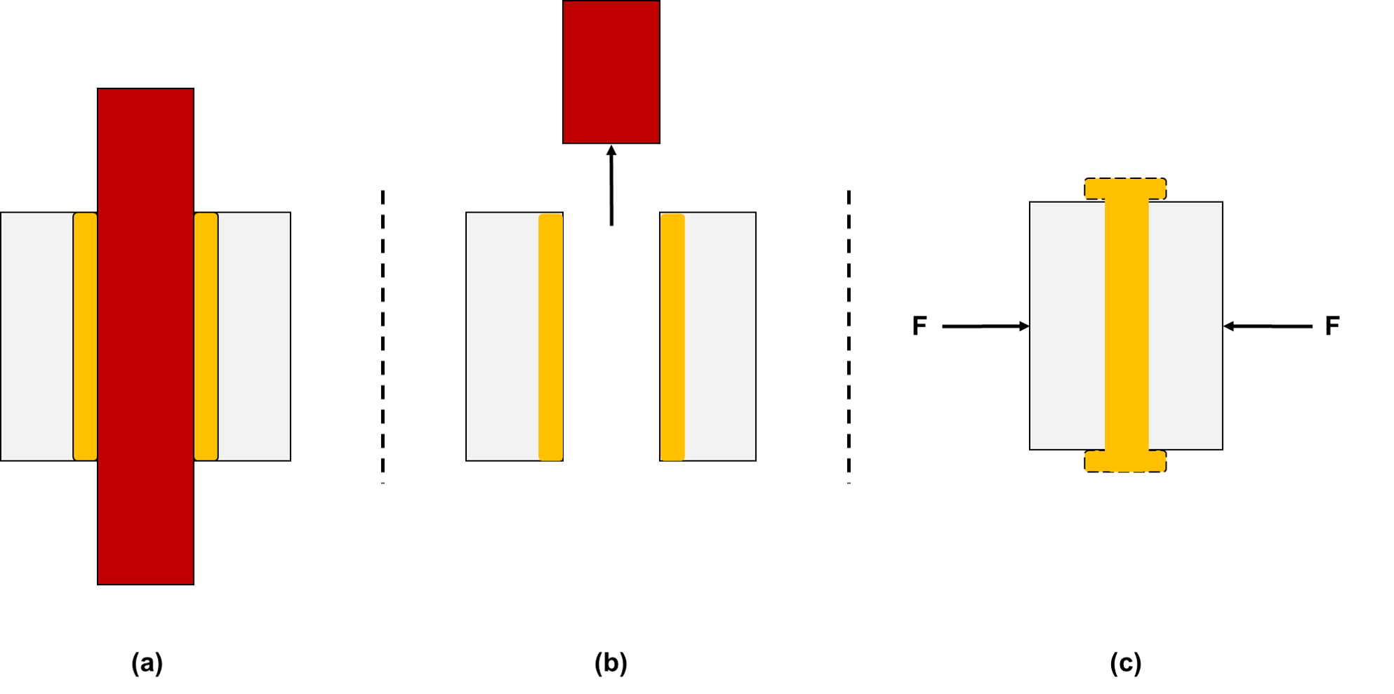 This diagram visually describes the squeeze out of material during hot plate welding.